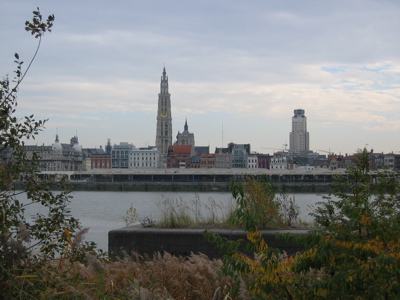 Uploaded by User:Alison. Photograph by Paul Underwood, with permission.